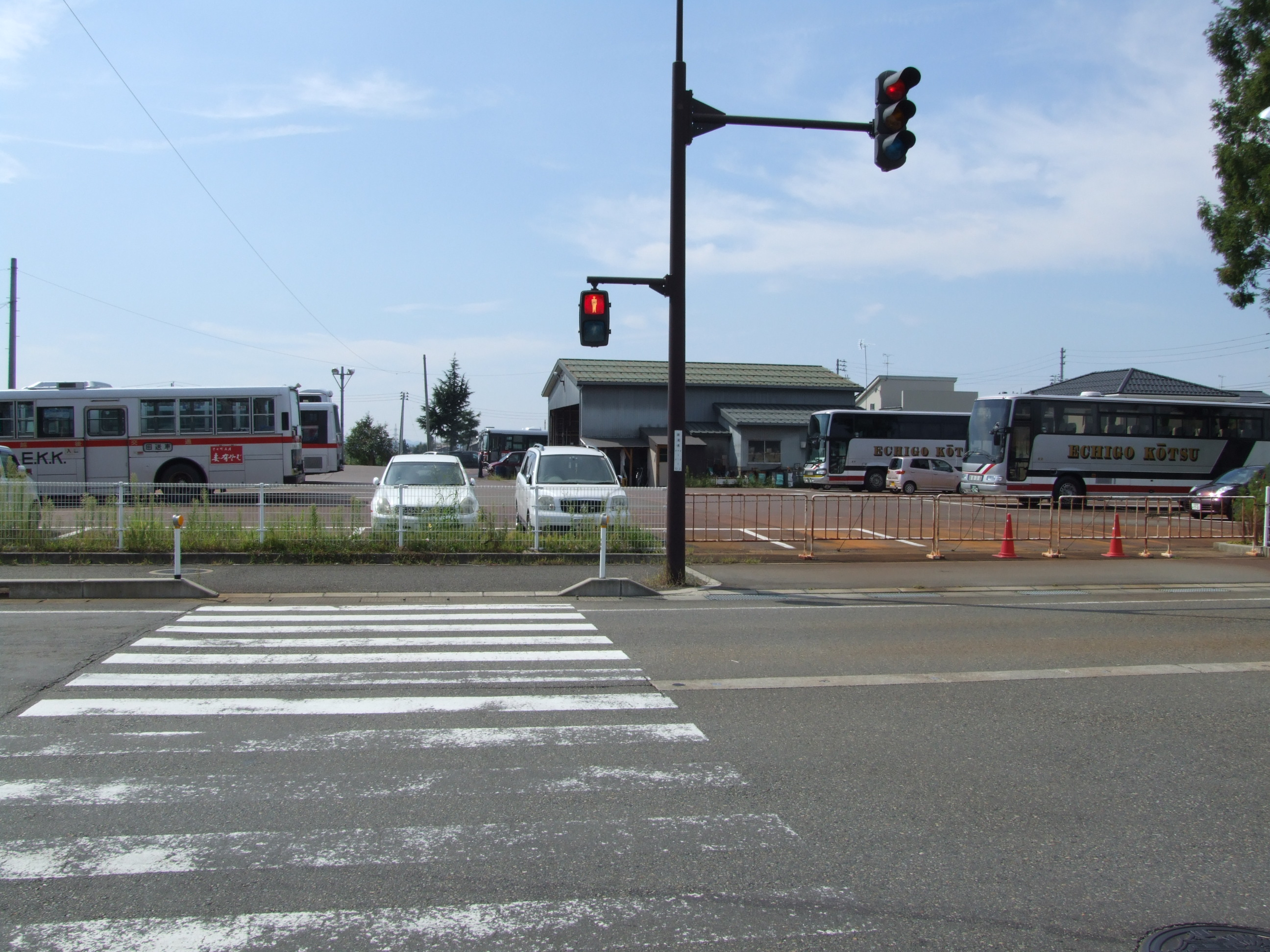 Remains of Yukyuzan Station Tochio Line in 2011